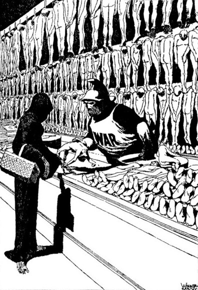 His Best Customer (1917) by Winsor McCay. Anti-war cartoon depicting War serving Death with the caption "His Best Customer."